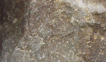 Quartz arenite, orthoquarzite; Lúžna formation sedimentary cover series of the tatric unit at Donovaly, Nízke Tatry, Slovakia.